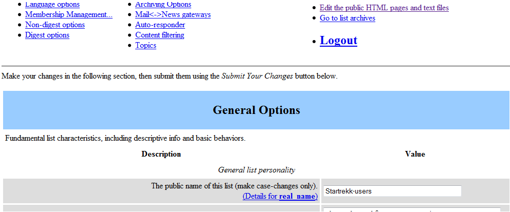 The webpage administration interface for GNU Mailman 2.1